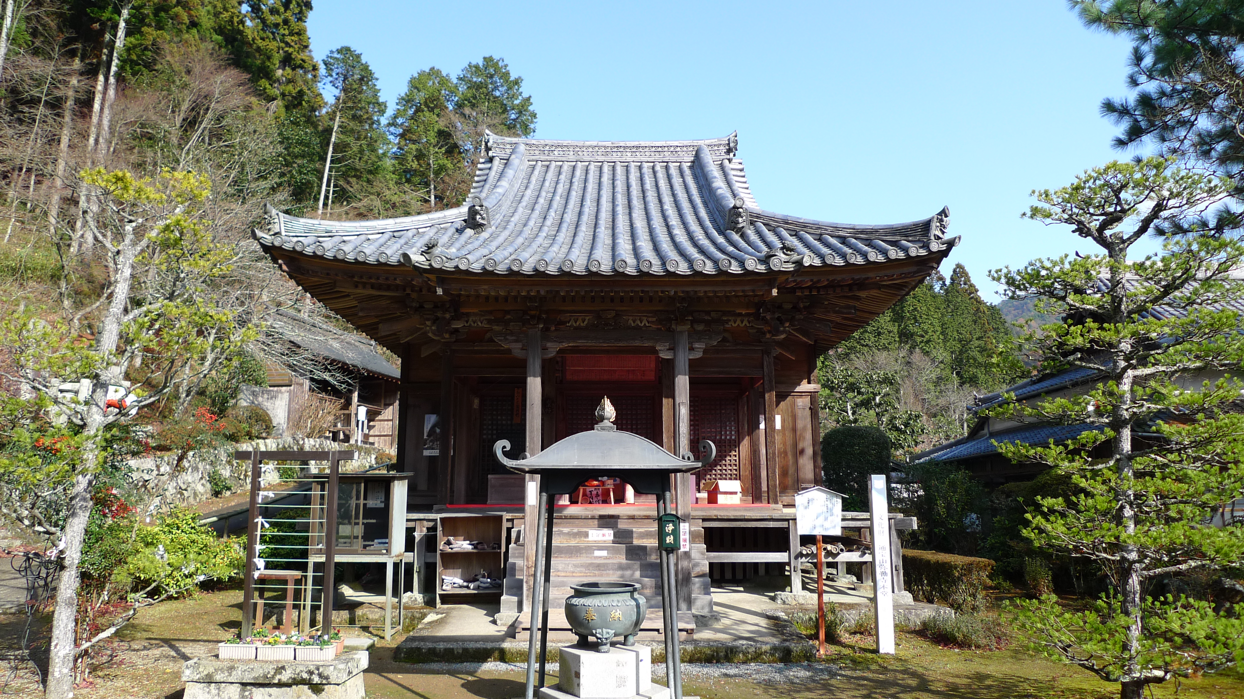 Mirokuji,Himeji,Hyogo prefecture,Japan